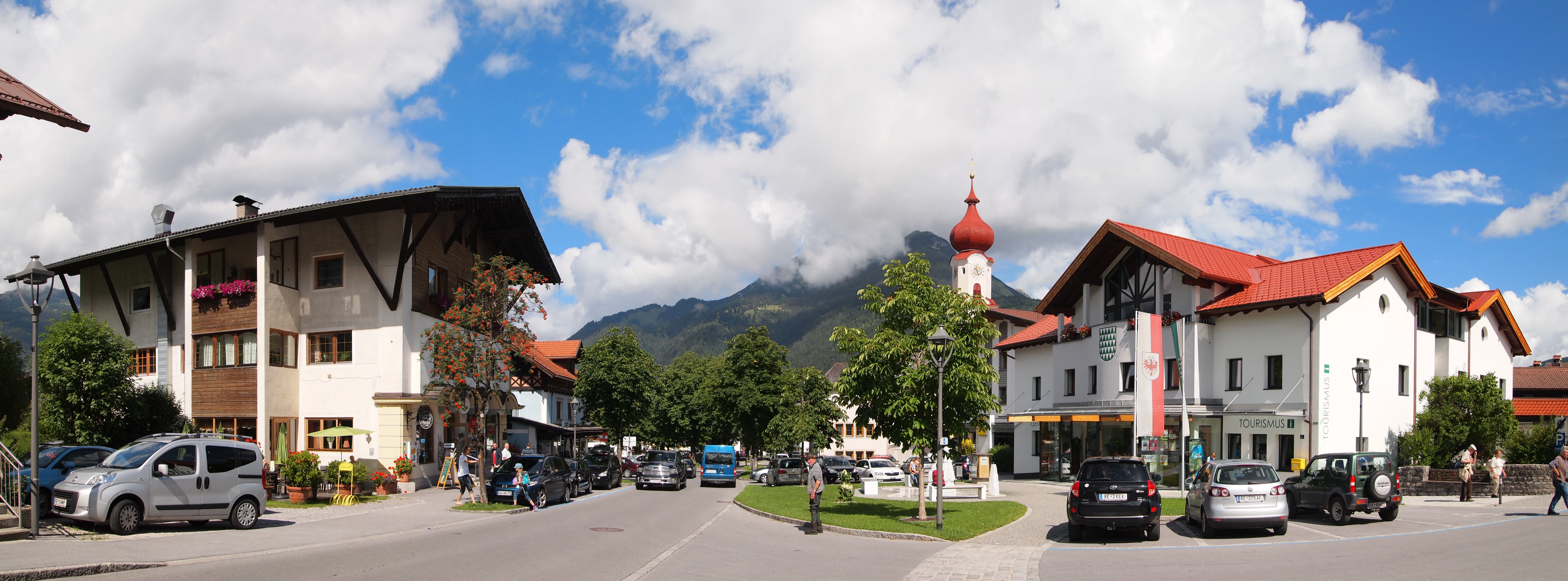 View in Ehrwald, Austria. This photograph was taken with a Olympus E-PL1.